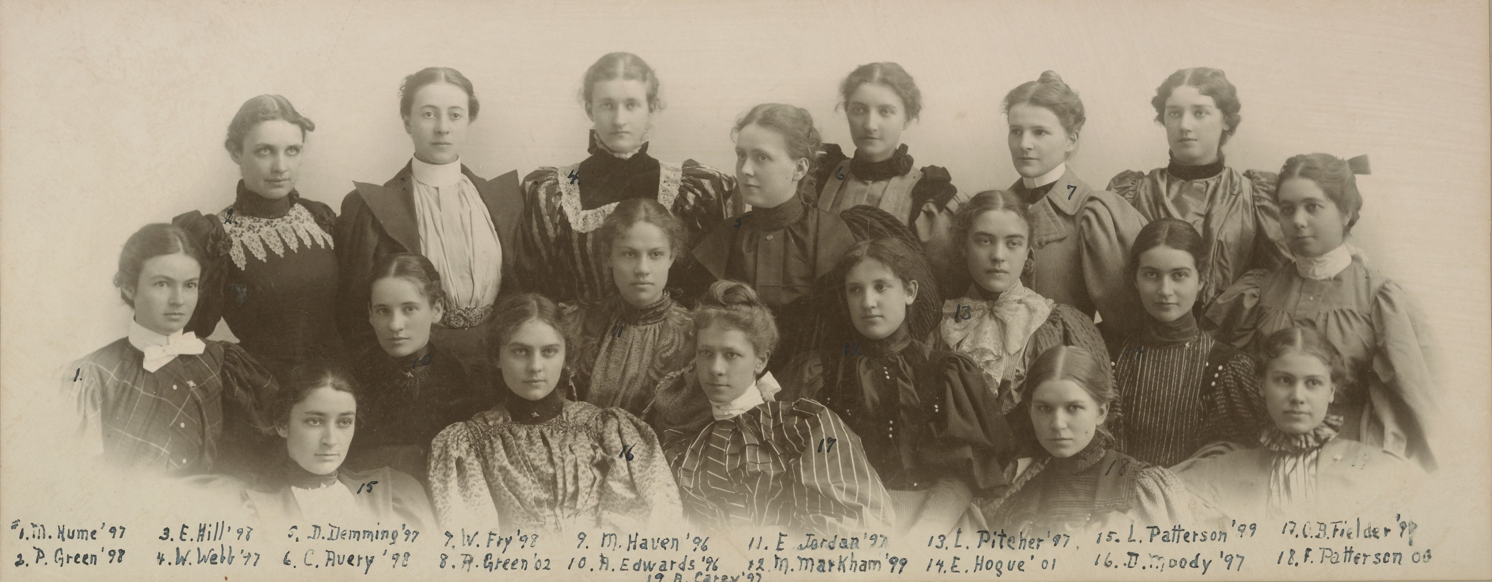 Pitcher, L., Patterson, F., Hume, M., Hill, E., Avery, C., Fry, W., Carey, A., Markham, M., Green, Ruby, Haven, Martha, Hogue, Elizabeth, Patterson, Frances, Demming, Daisy, Jordan, Edith, Fielder, Ortha Belle, Moody, Ora, Webb, Winnifred, Edwards, Ada, Hill, Edith, Green, P., and Patterson, Letitia